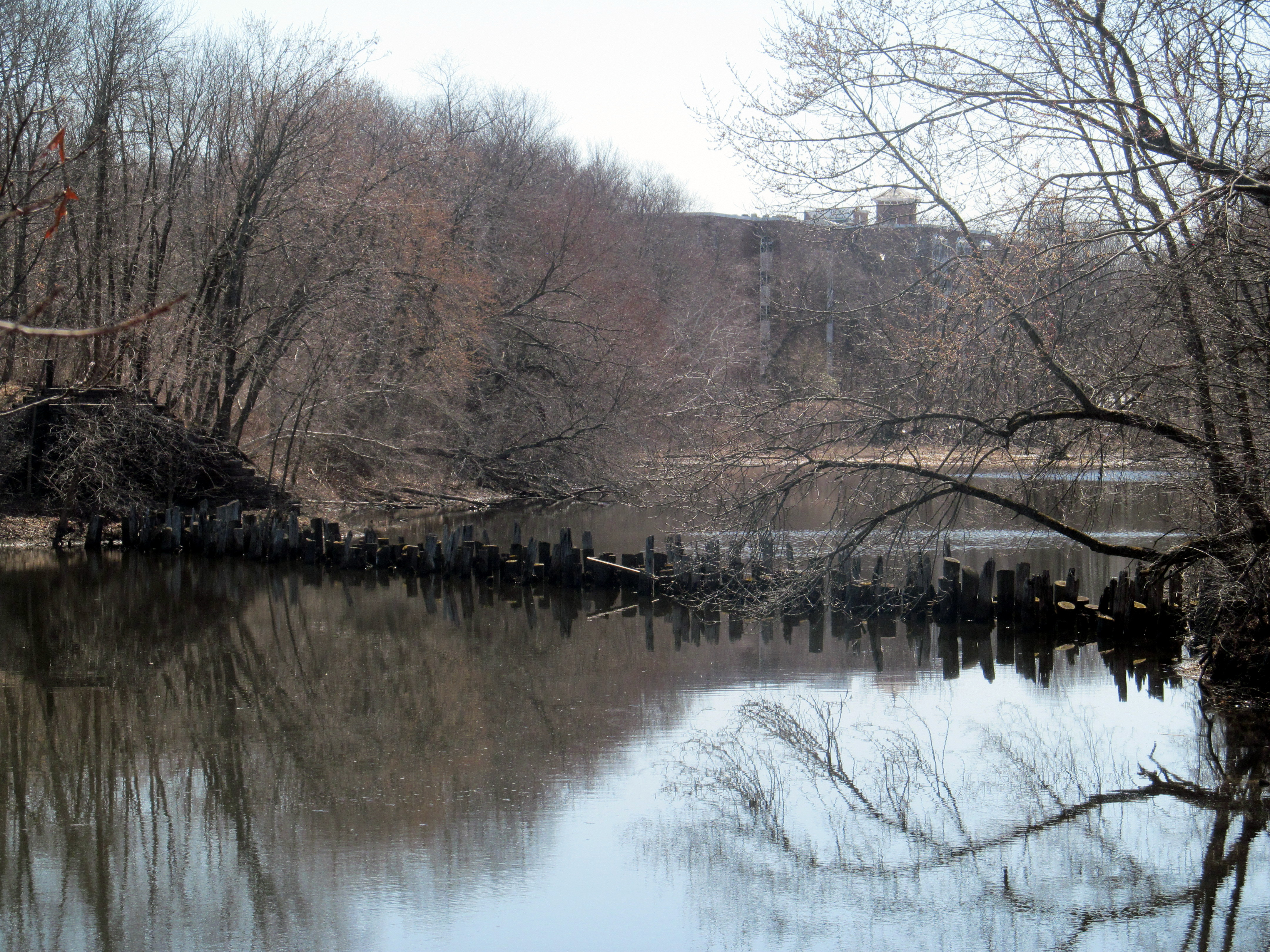 Former Essex Railroad bridge at North Andover in April 2015